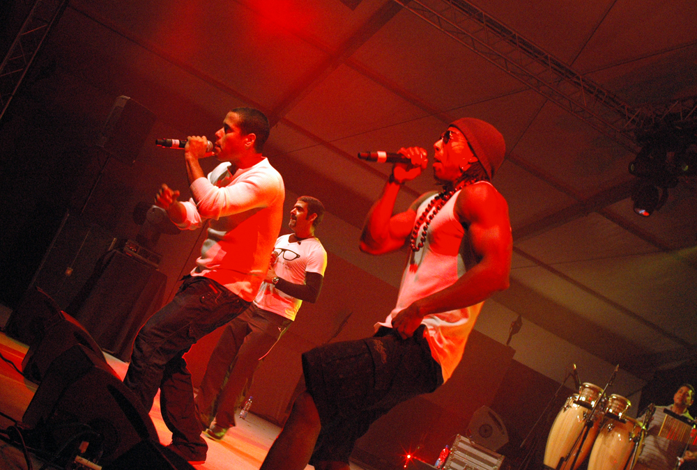 Cuban hip-hop group Orishas performing in Warszawa, Poland during 5th Cross Culture Festival